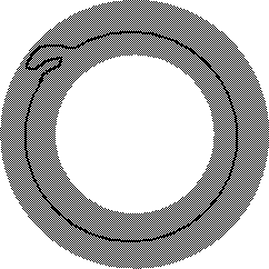 Annulus.circle.pi 1-injective